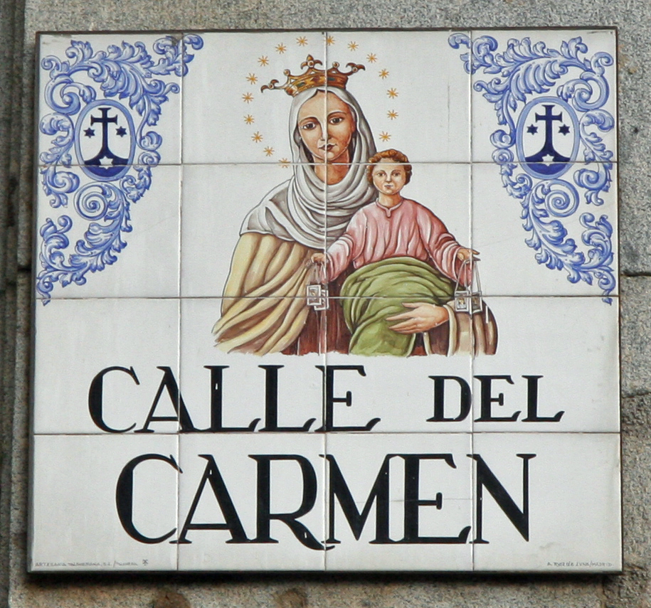 Sign of Calle del Carmen (street, Centro district) in Madrid (Spain).